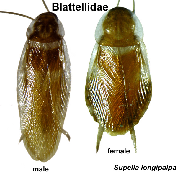 Brown Banded cockroach